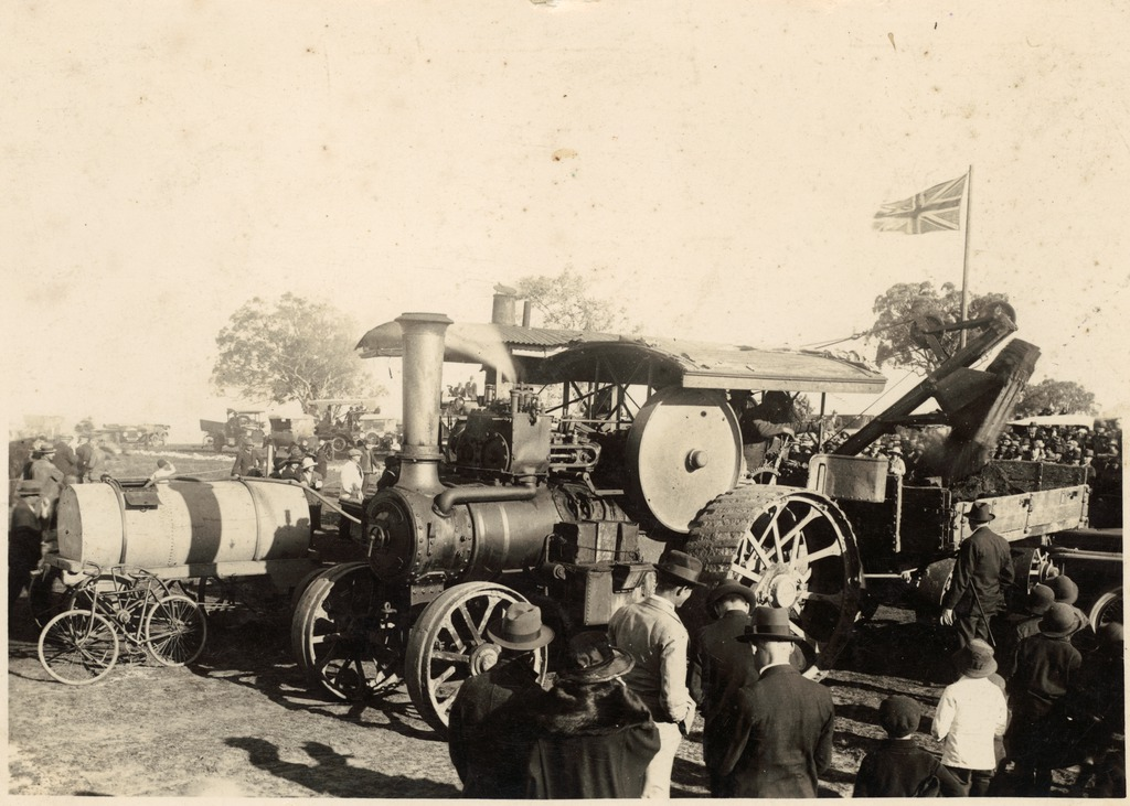 Boland, Frank H., d. 1955. Condition: Good.; Part of the collection: Frank H. Boland collection.; Title from accompanying documentation.; "From F.H. Boland, Queanbeyan"--Handwritten in pencil on verso. The first sod for the site of Parliament House, Canberra, was turned on 28 August 1923 by the Hon. P.G. Stewart, Minister for Works and Railways.--Reference: Parliamentary Library historical information web site. Images shows crowds gathered around a steam driven excavator. Persistent URL .au/nla.pic-an23675564